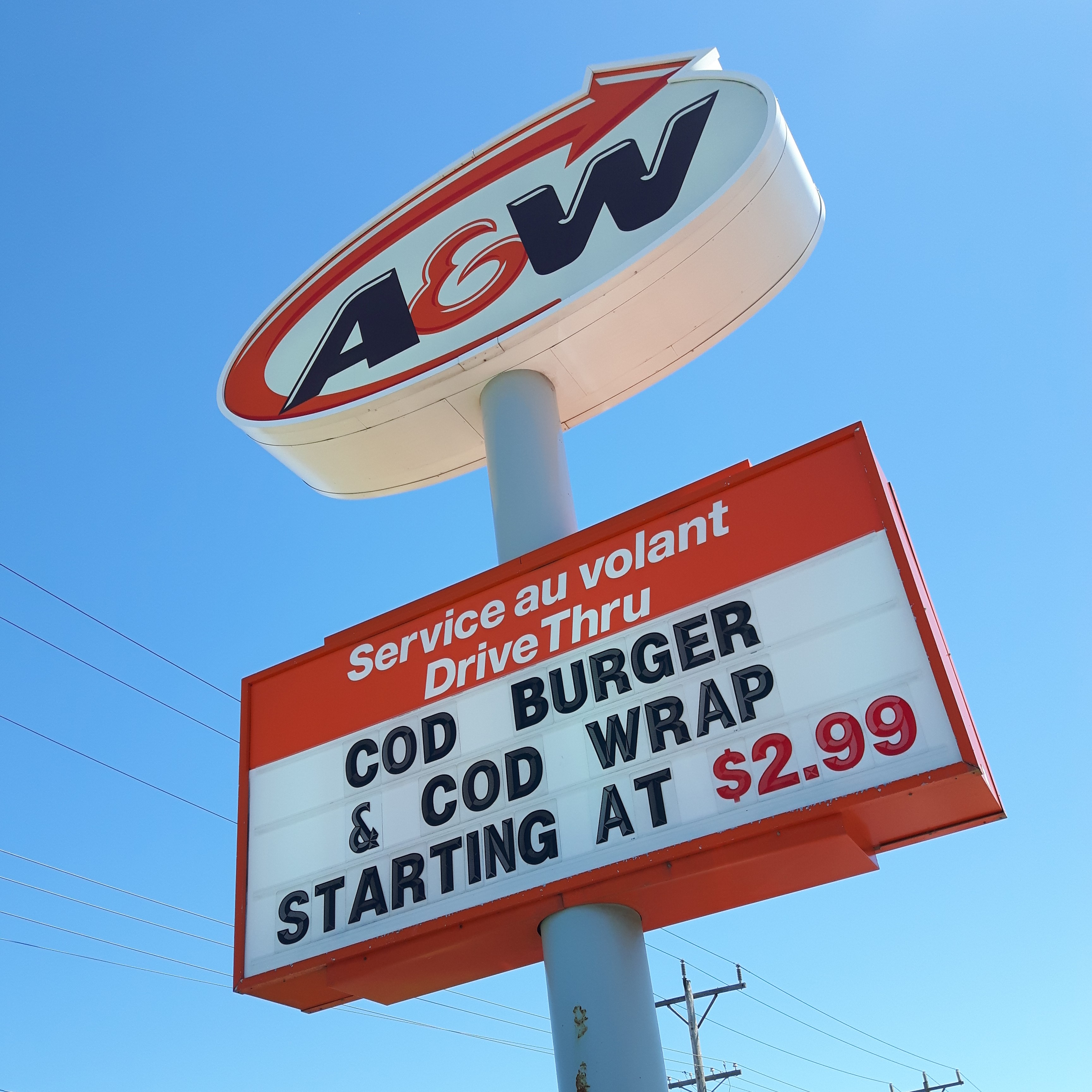 Cod being sold as fast food in New Brunswick, Canada after a long moratorium on a commercial cod fishery in Canada. Days before this image was taken, the federal government reduced the cod quota, finding that the cod stocks had fallen once again after just 2 years of fair catches.